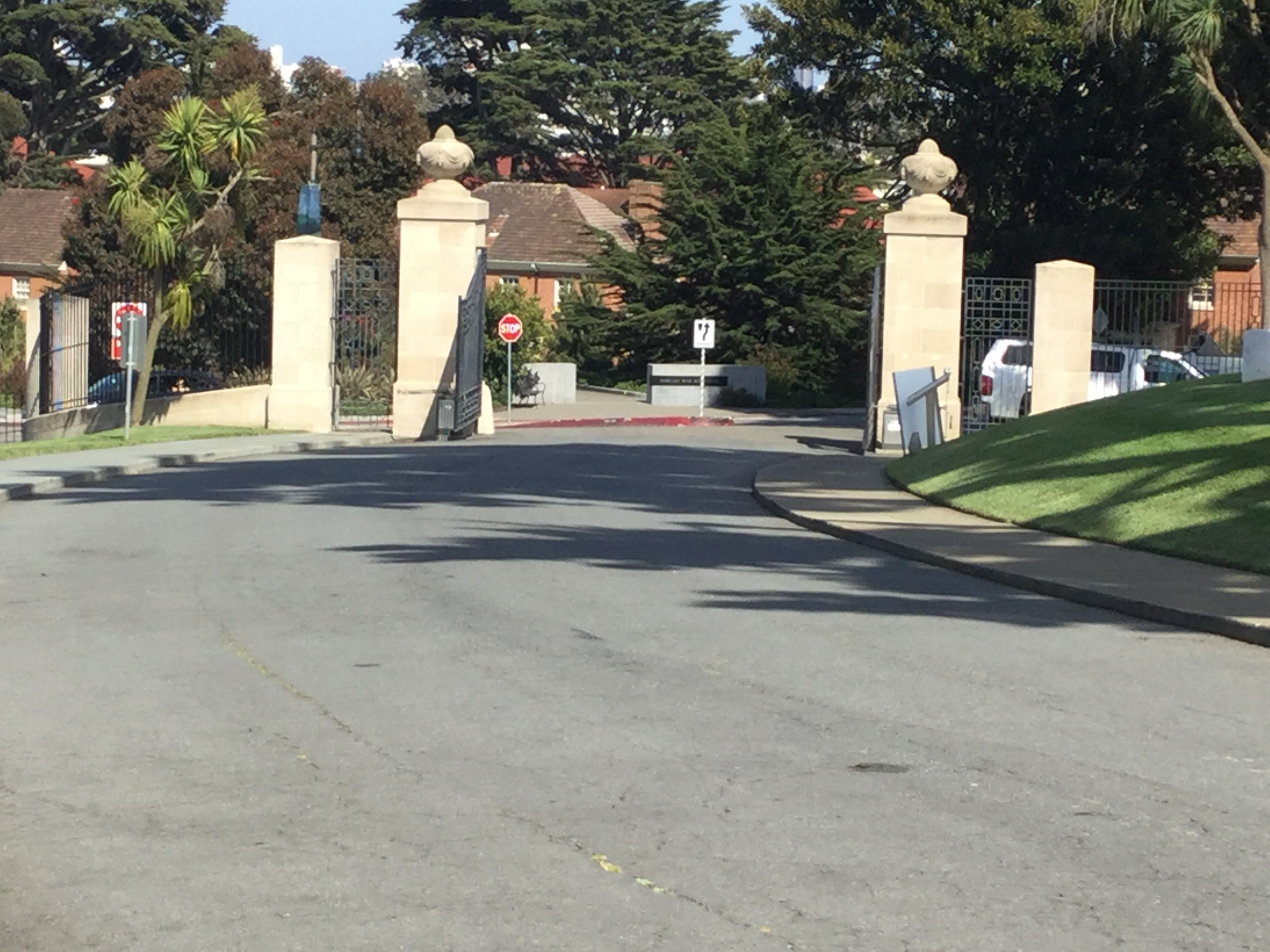 An image showing the entrance of the San Francisco National Cemetery